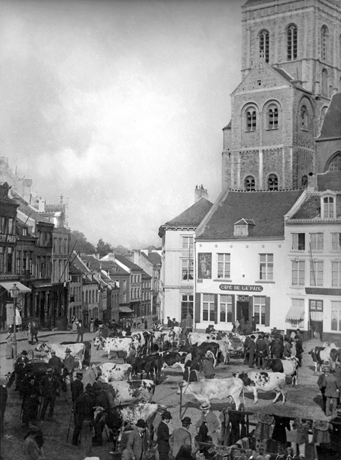 The cattle market in Tienen, Belgium